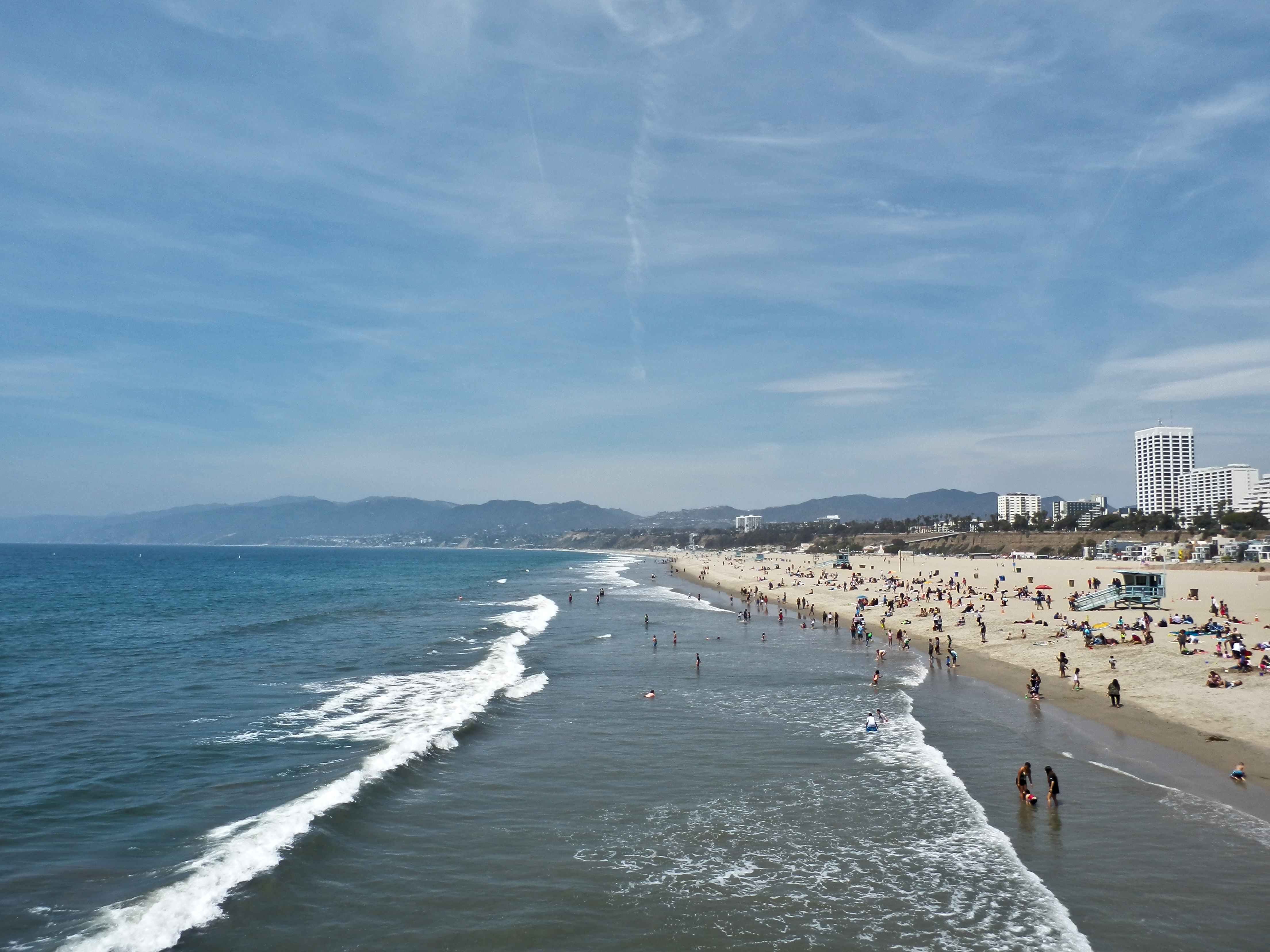 Santa Monica State Beach